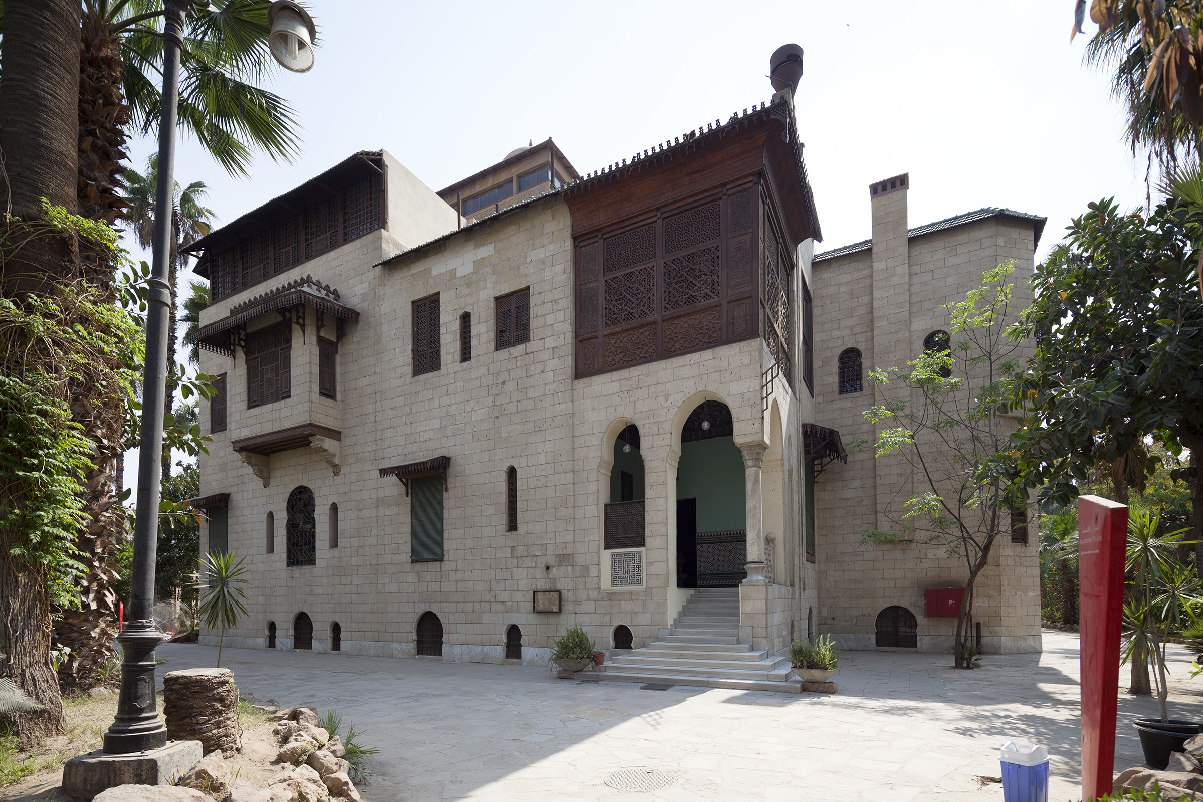 Residence Palace, North side, Manial palace, Roda island, Cairo, Egypt